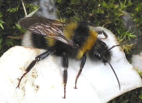 Bombus hortorum on Digitalis purpurea